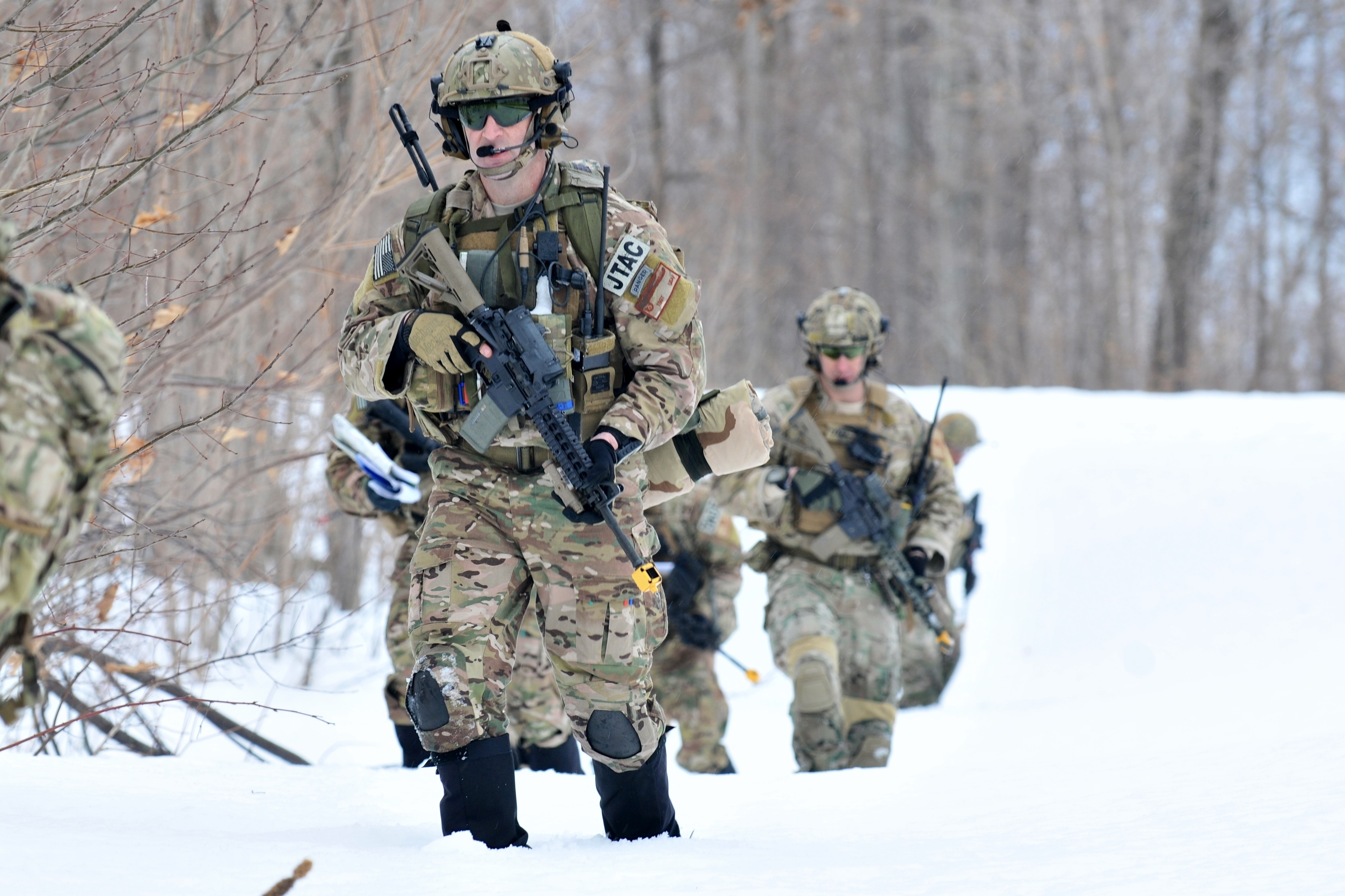 Tech Sgt. Jason Farrand, an Army Ranger qualified Joint Terminal Air Controller (JTAC), moves towards the objective training area during an exercise at Fort Drum, N.Y., March 14, 2015. Thirty Airmen from the New York Air National Guard’s 274th Air Support Operations Squadron (ASOS), based at Hancock Field Air National Guard Base, trained on Close Air Support (CAS) as well as training for the first time with two CH-47F Chinook helicopters from Company B, 3rd Battalion, 126th Aviation based in Rochester, N.Y. The 274th mission is to advise U.S. Army commanders on how to best utilize U.S. and NATO assets for close air support. (New York Air National Guard photo by Master Sgt. Eric Miller/Released)